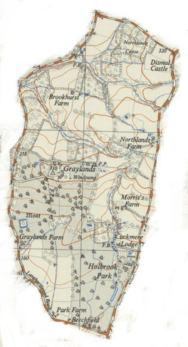 OS Map of Graylands hamlet. Approx, 1937